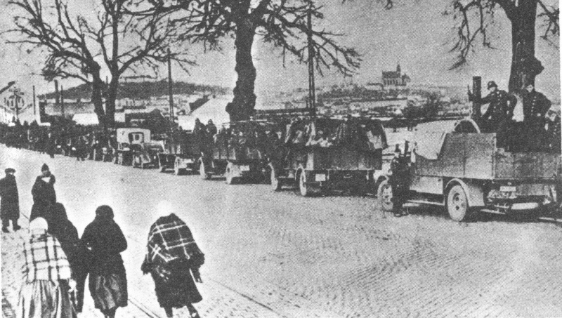 15. March 1939 - German occupation of Bohemia and Moravia - the German army before Brno